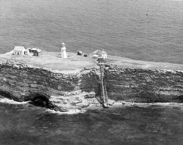 Bird Rock, P.Q. Aerial view with light tower and other buildings, landing ramp.